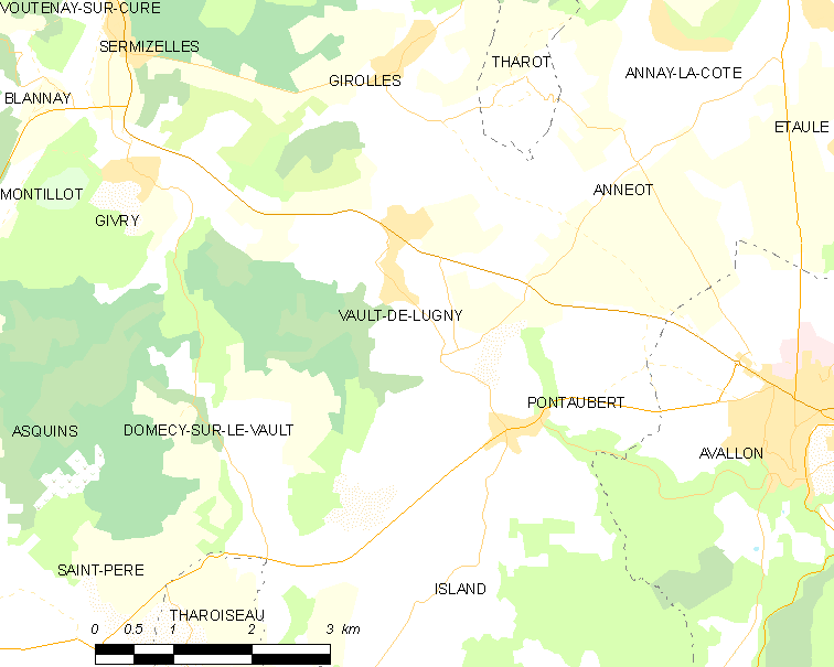 Map of French municipality Vault-de-Lugny